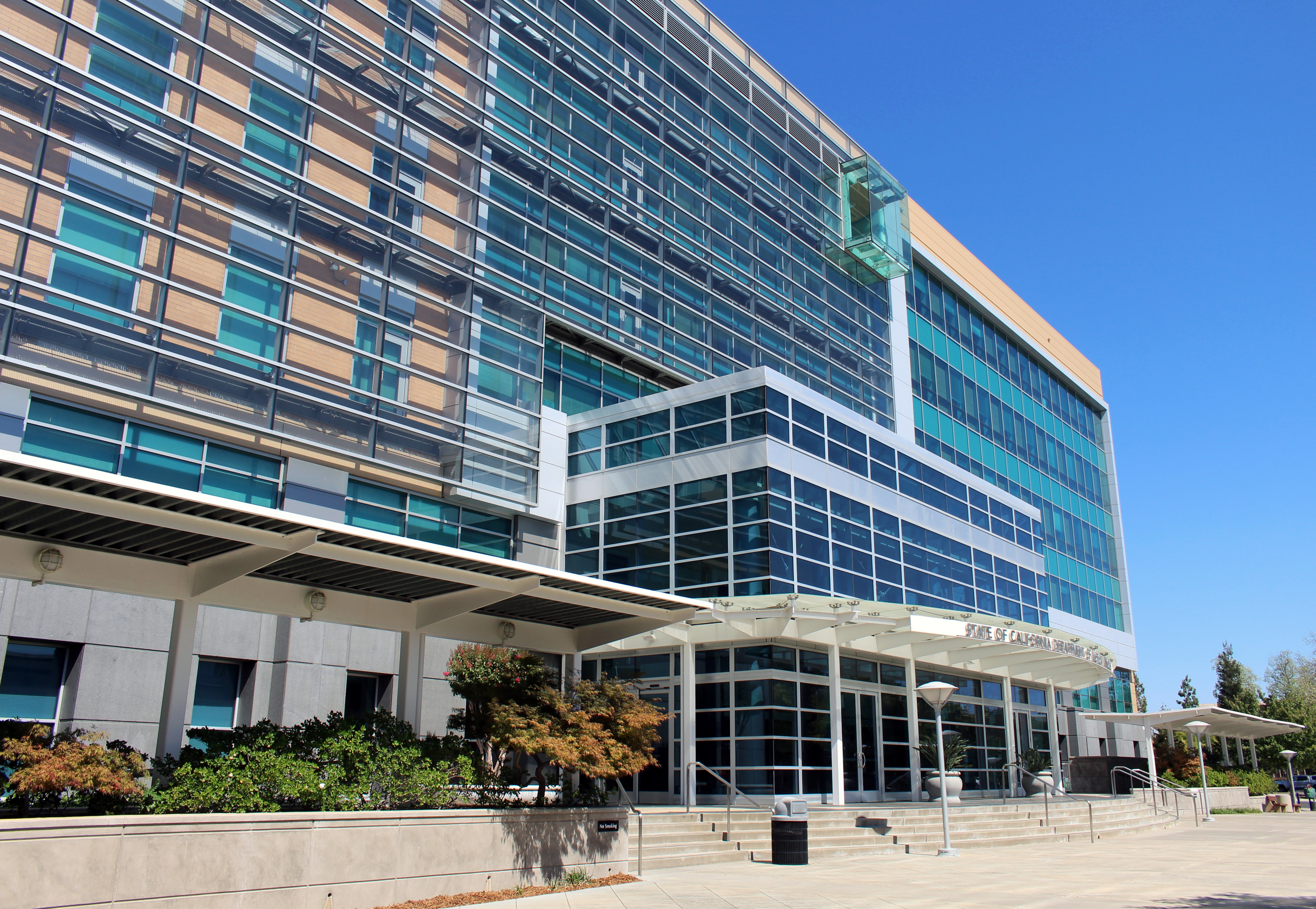 The headquarters of the California Department of Motor Vehicles in Sacramento, California. Photographed on September 3, 2016 by user Coolcaesar.